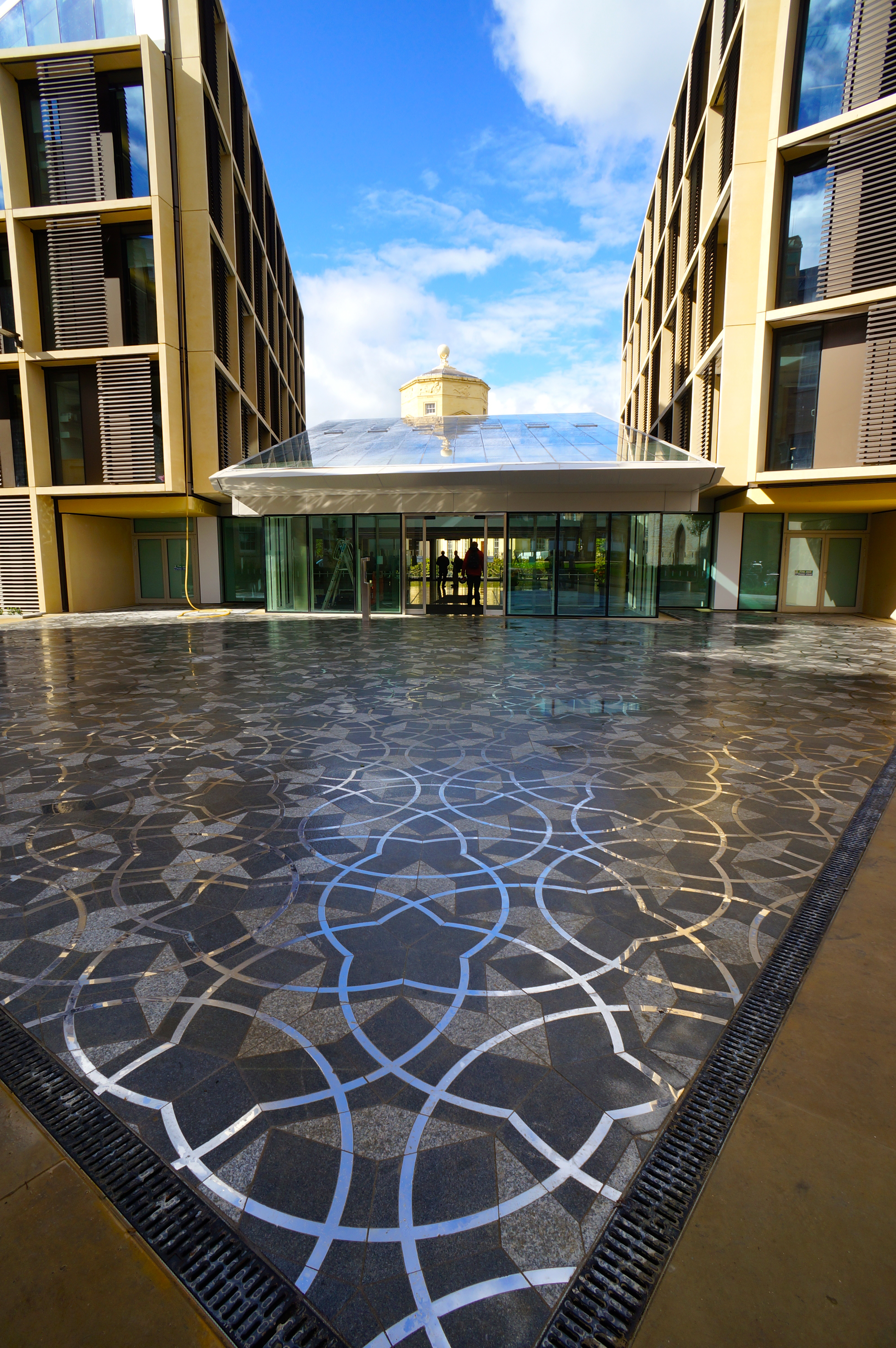 Entrance of the Andrew Wiles Building, Home of the Mathematical Institute at the University of Oxford. Appreciate the Penrose tiling in front of the building